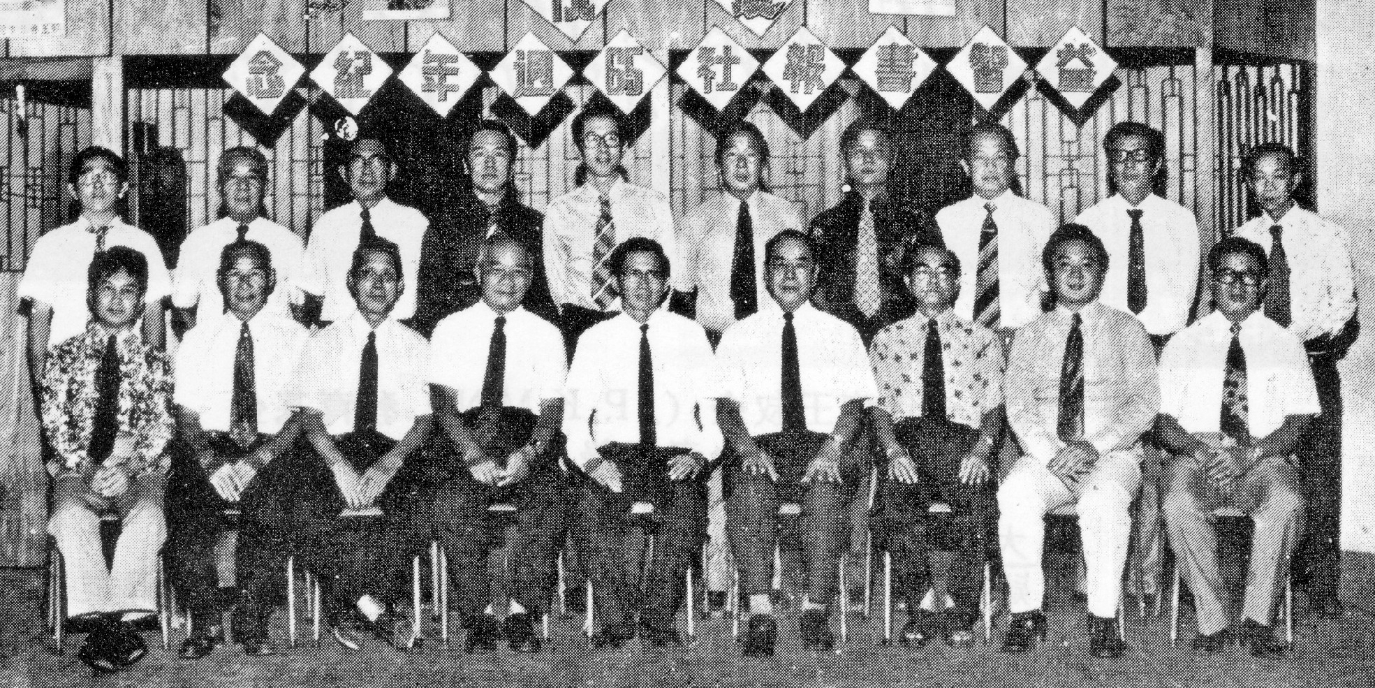 Ong Seok Kim Memorial Education Fund - Founding Committee, 1965. Source: Book: No Other Way Out - A Biography of Ong Seok Kim. PJ, Malaysia; Authors: Wang Jianshi, Ong Eng-Joo; Publisher: Strategic Information and Research Development Centre, 2013; Site